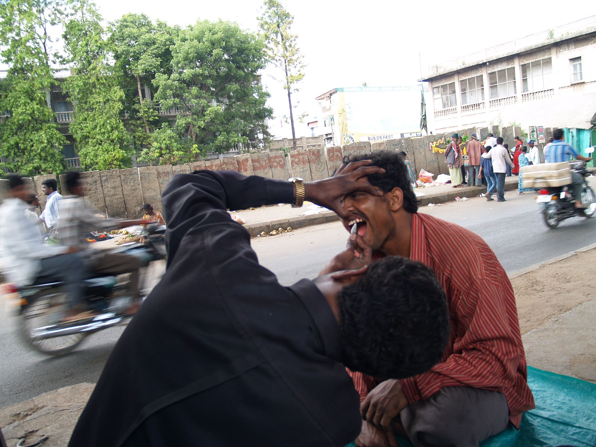 Street dentist in Bangalore with a patient.